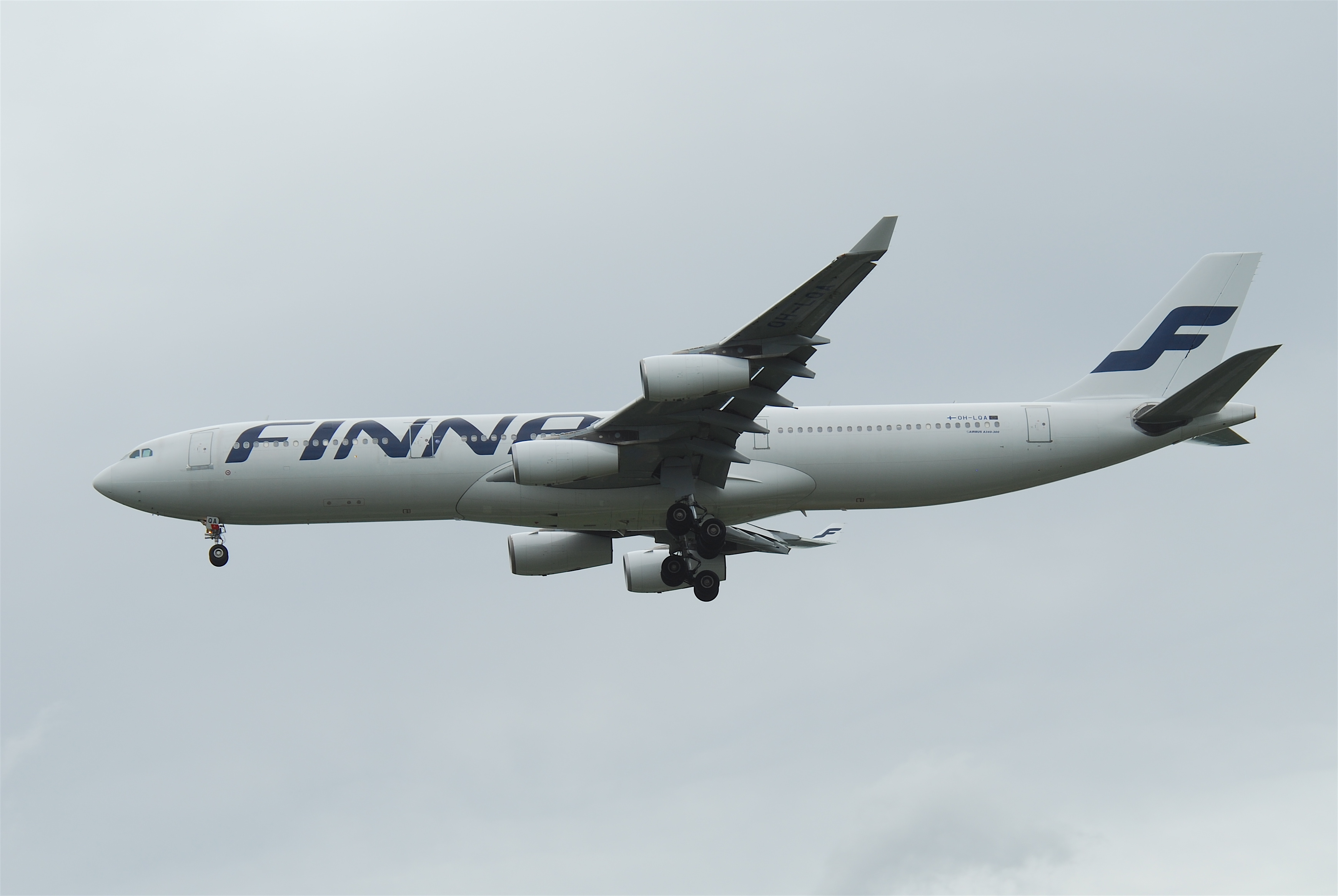 A Finnair Airbus A340-311 aircraft (OH-LQA) at Suvarnabhumi International Airport in Bangkok in July 2011.